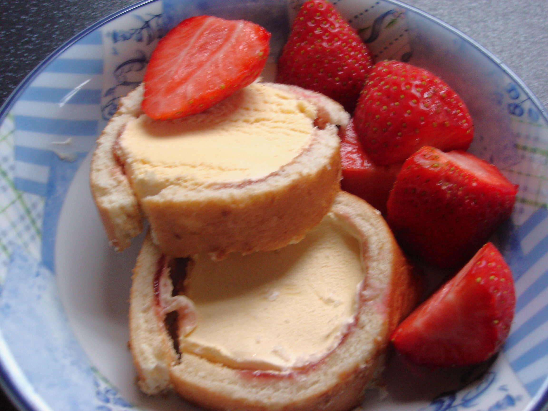 Shot of several slices of originalen:Arctic roll for enwiki-p.